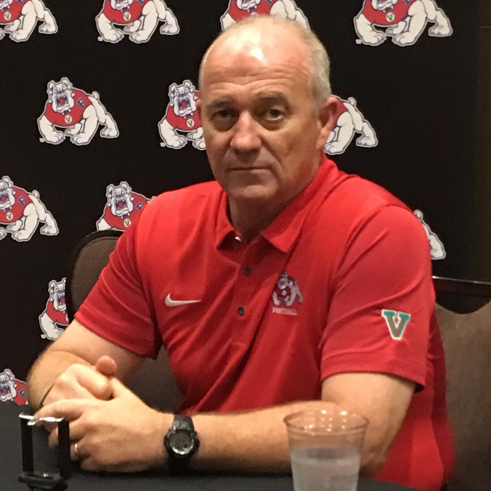 Jeff Tedford, head coach of the Fresno State Bulldogs football team, at the 2017 Mountain West Conference Media Days in the The Cosmopolitan in Las Vegas.